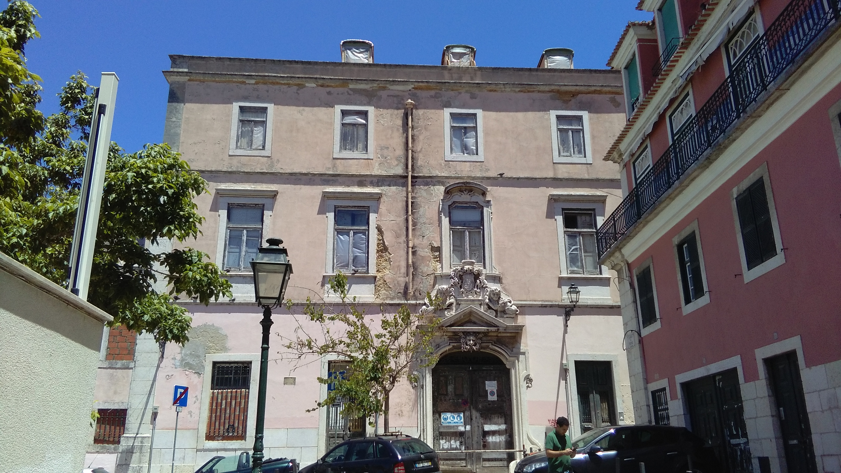 Facade of Rosa Palace in Lisbon, Portugal. This building was substantially altered in the 18th-century, possibly following the Lisbon Earthquake of 1755. Despite the simple aspect of the exterior facades it houses a valuable collection of azulejos (tile work panels) depicting some important episodes of the history of Portugal and the history of the Viscounts of Vila Nova de Cerveira and Marquesses of Ponte de Lima.